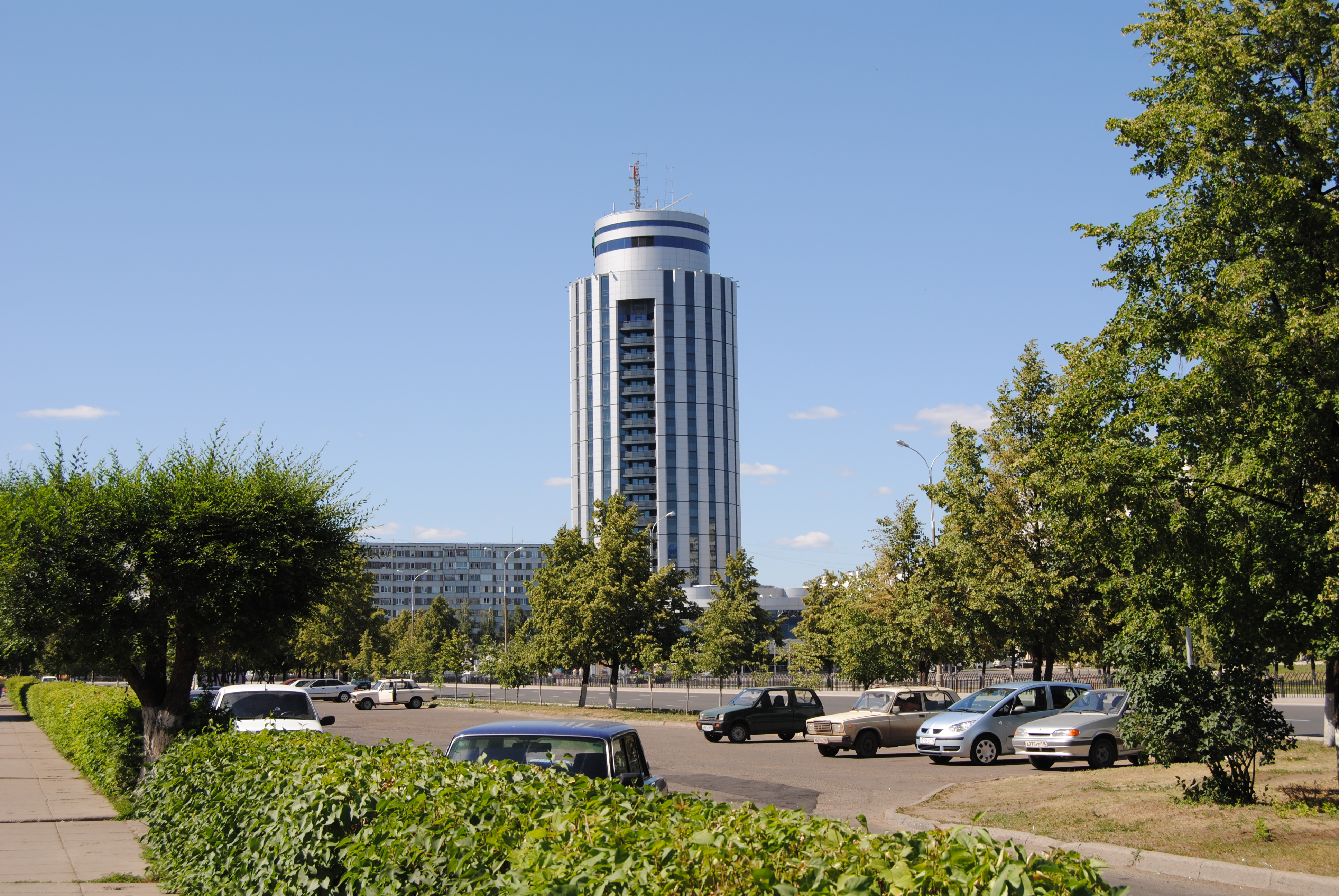 Exterior Building Business Centre 2 / 18 (Naberezhnye Chelny). People call it Tyubetejka. Татарча/tatarça: Чаллыда урнашкан "2/18" бизнес үзәге бинасының тышкы күренеше (халыкта "тюбетейка" дип йөртелә)